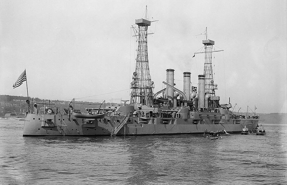 cleaned up glass negative of USS Kansas (BB-21): slide border removed; minor artifacting cleaned up